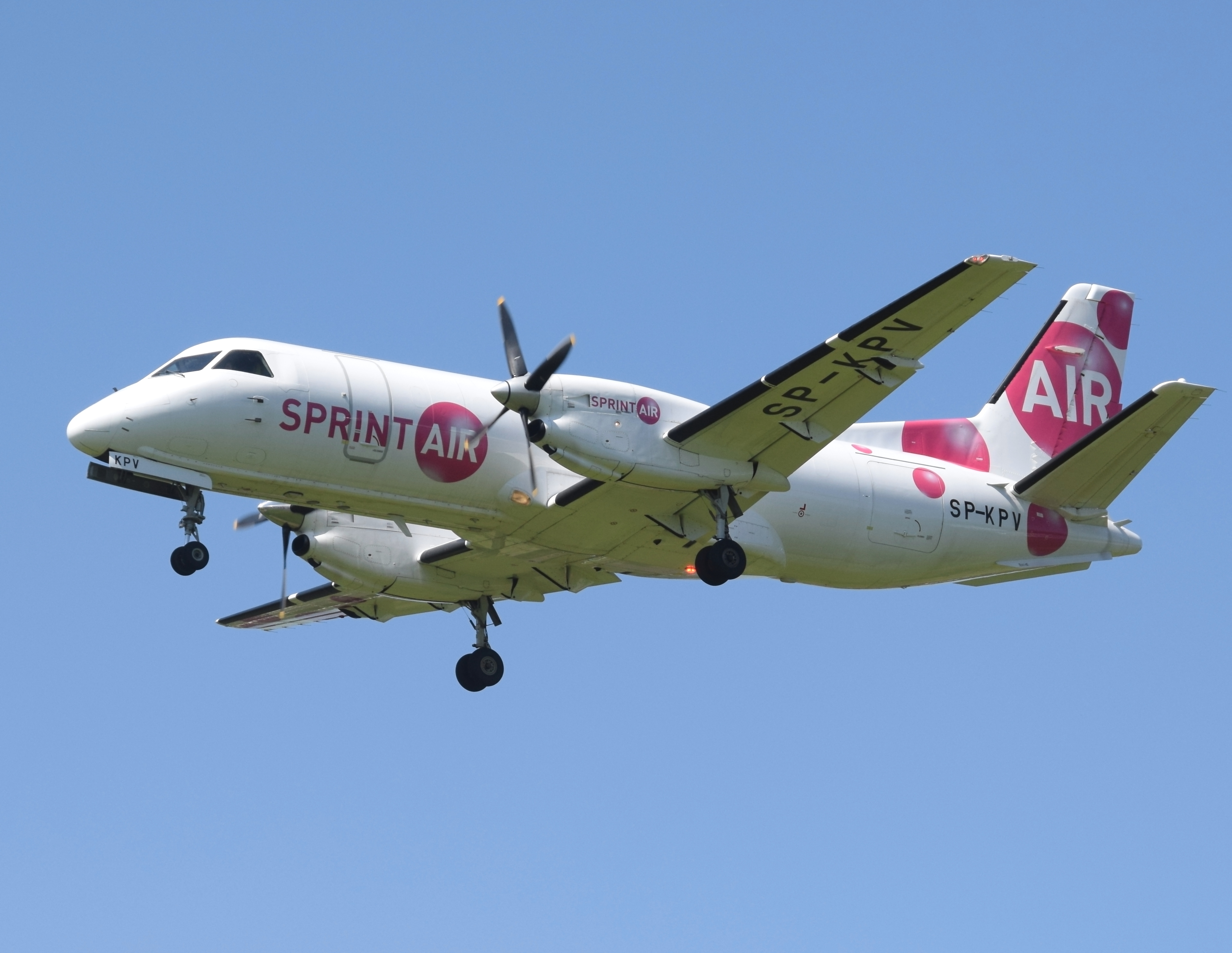 Saab 340A (SP-KPV) of the Polish company SprintAir arrives at Birmingham Airport, England. First flight of this aircraft was 1986.